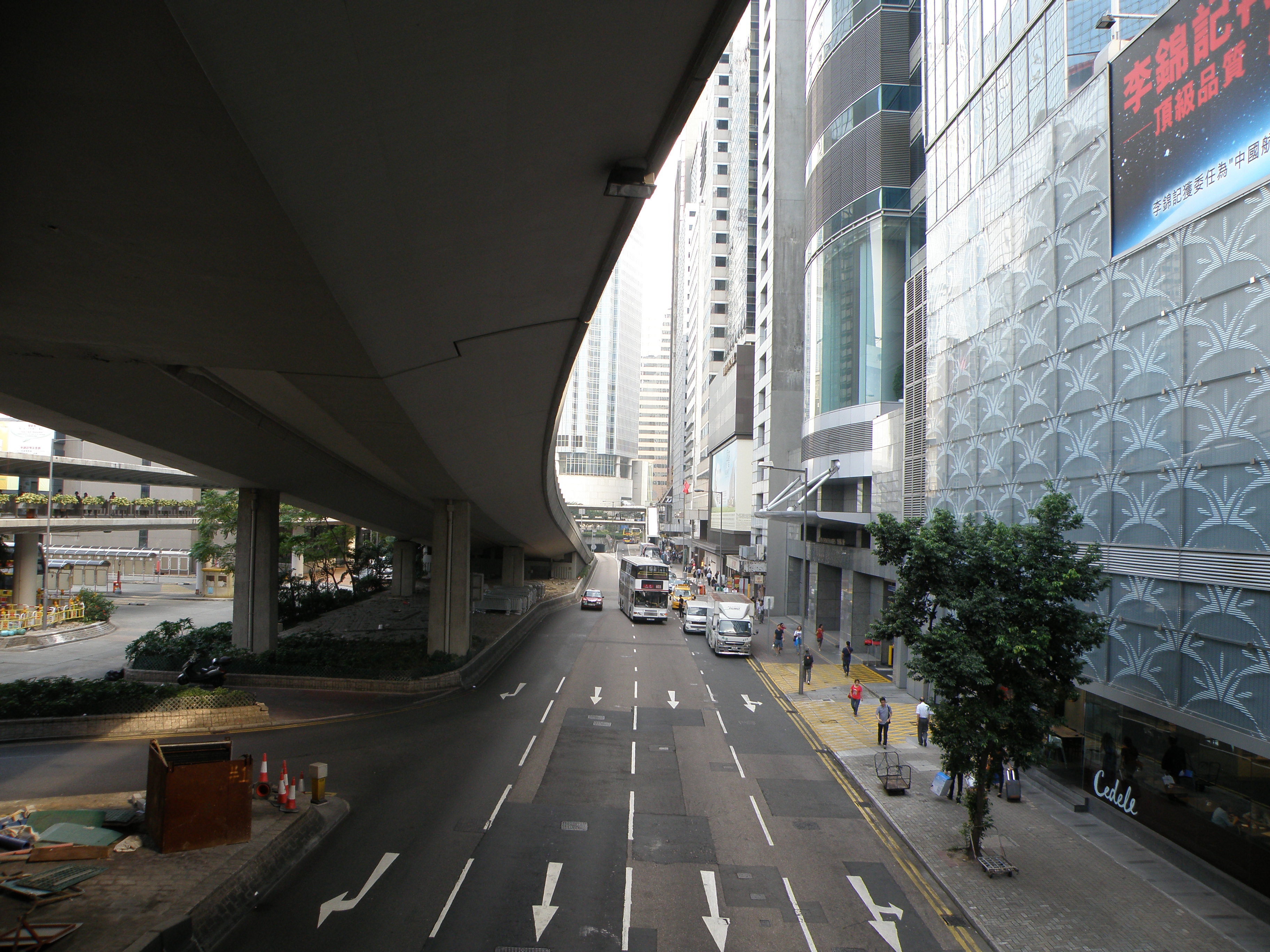 Connaught Road Central in Sheung Wan, Hong Kong.